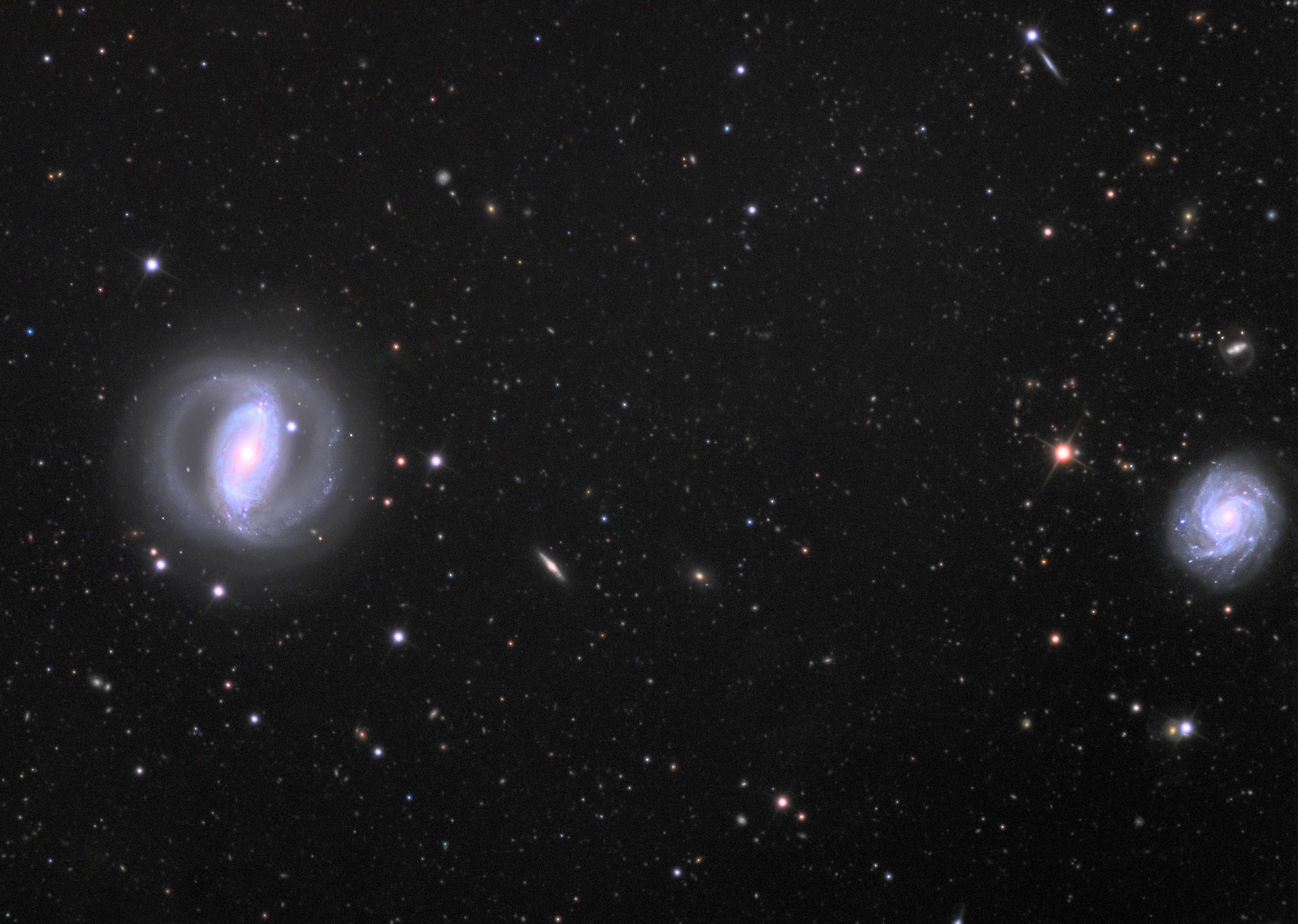 NGC 3504 barred spiral galaxy and NGC 3512 spiral galaxy in 32 inch Schulman telescope